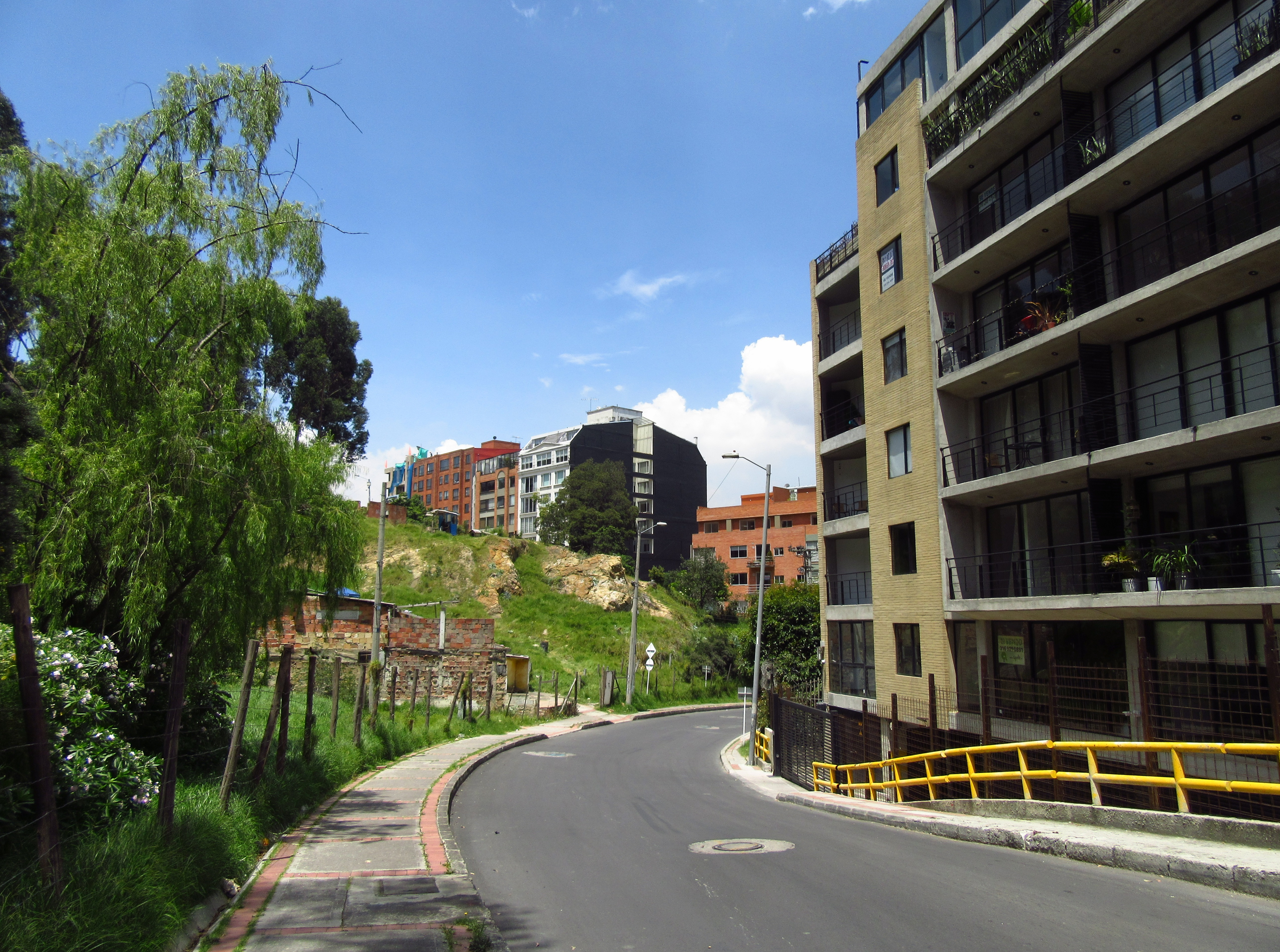 Bogotá